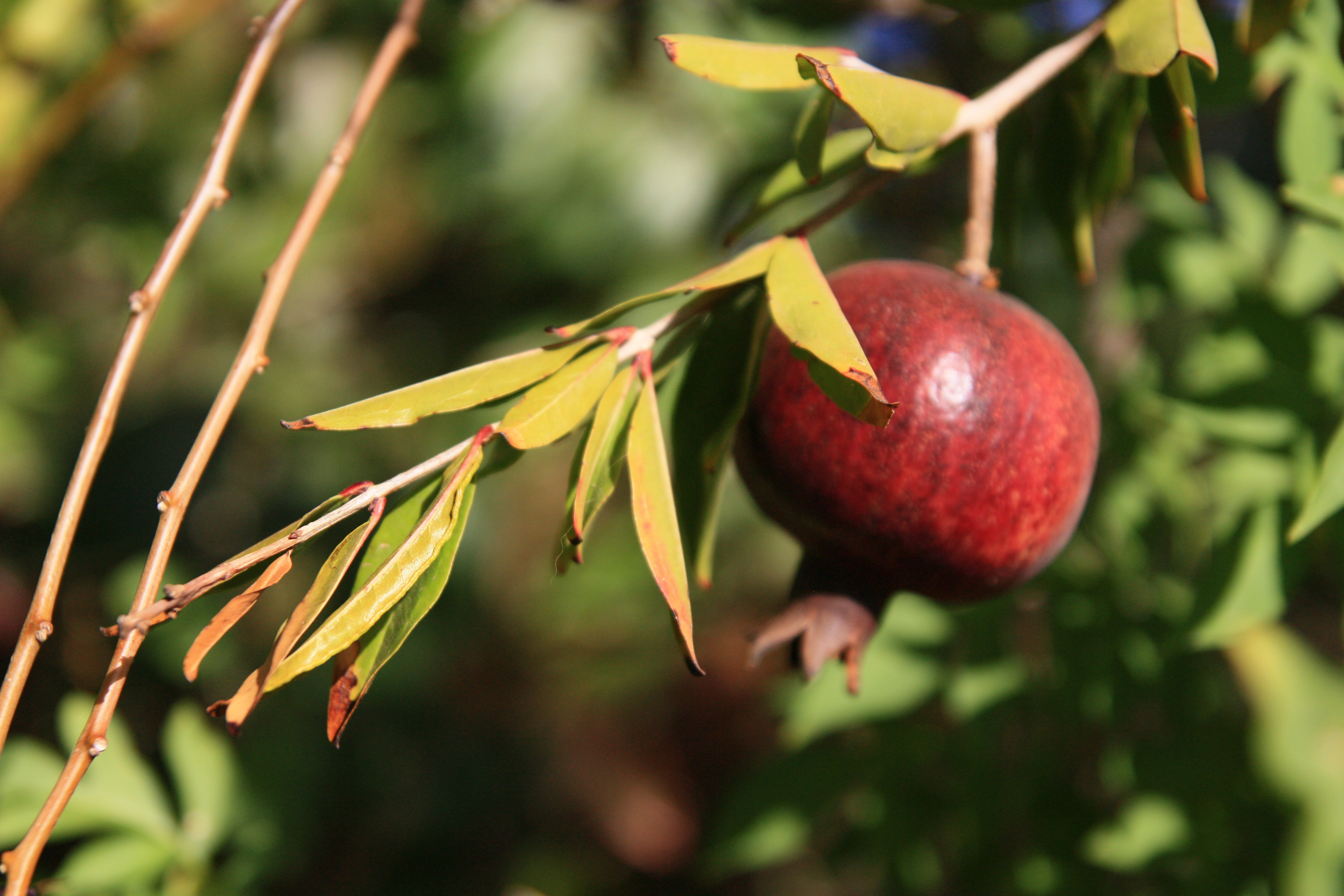 fruit trees